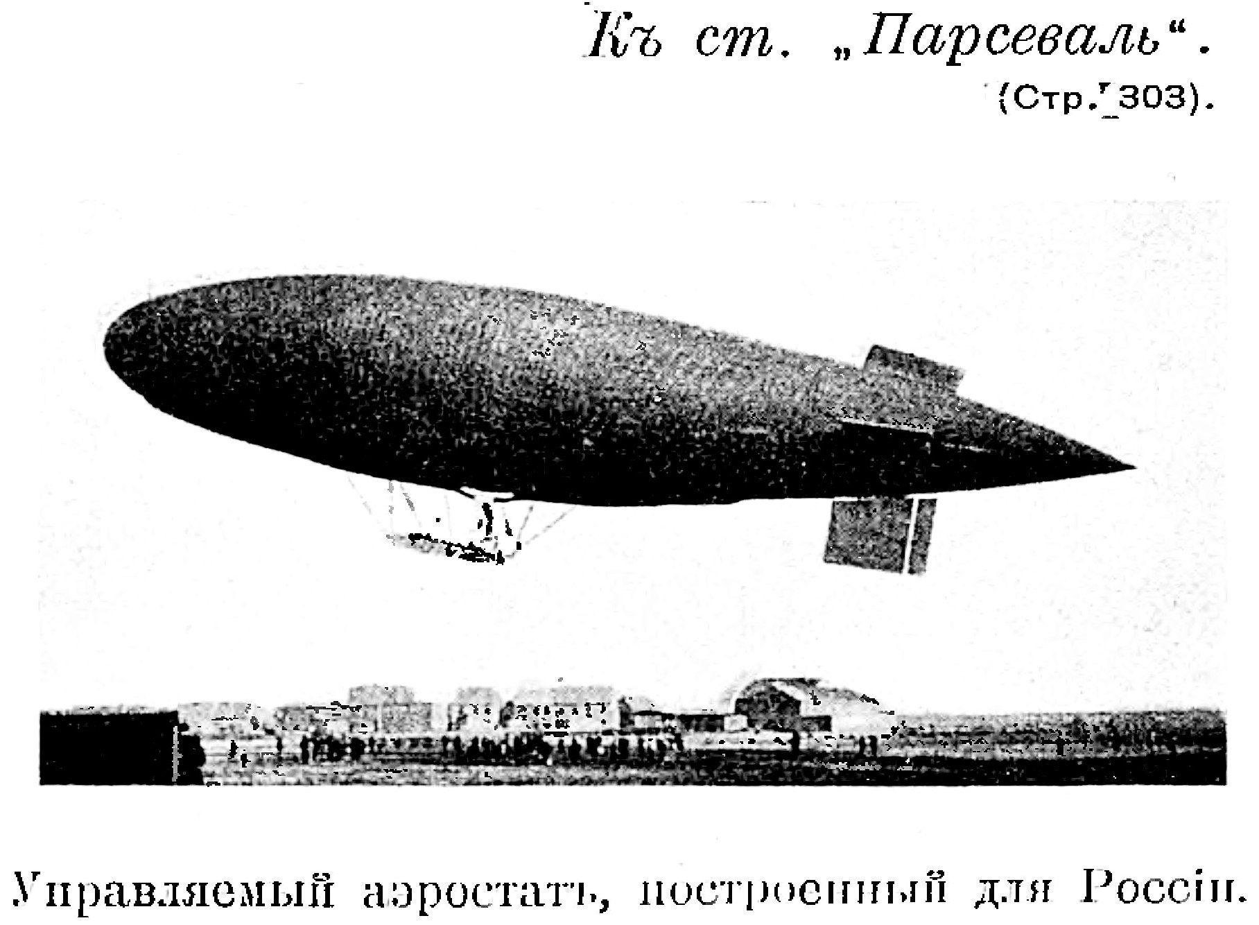 Parseval airship